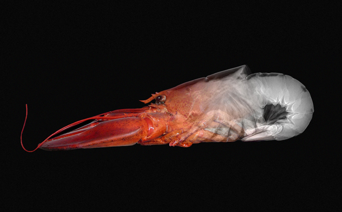 Lobster x-ray